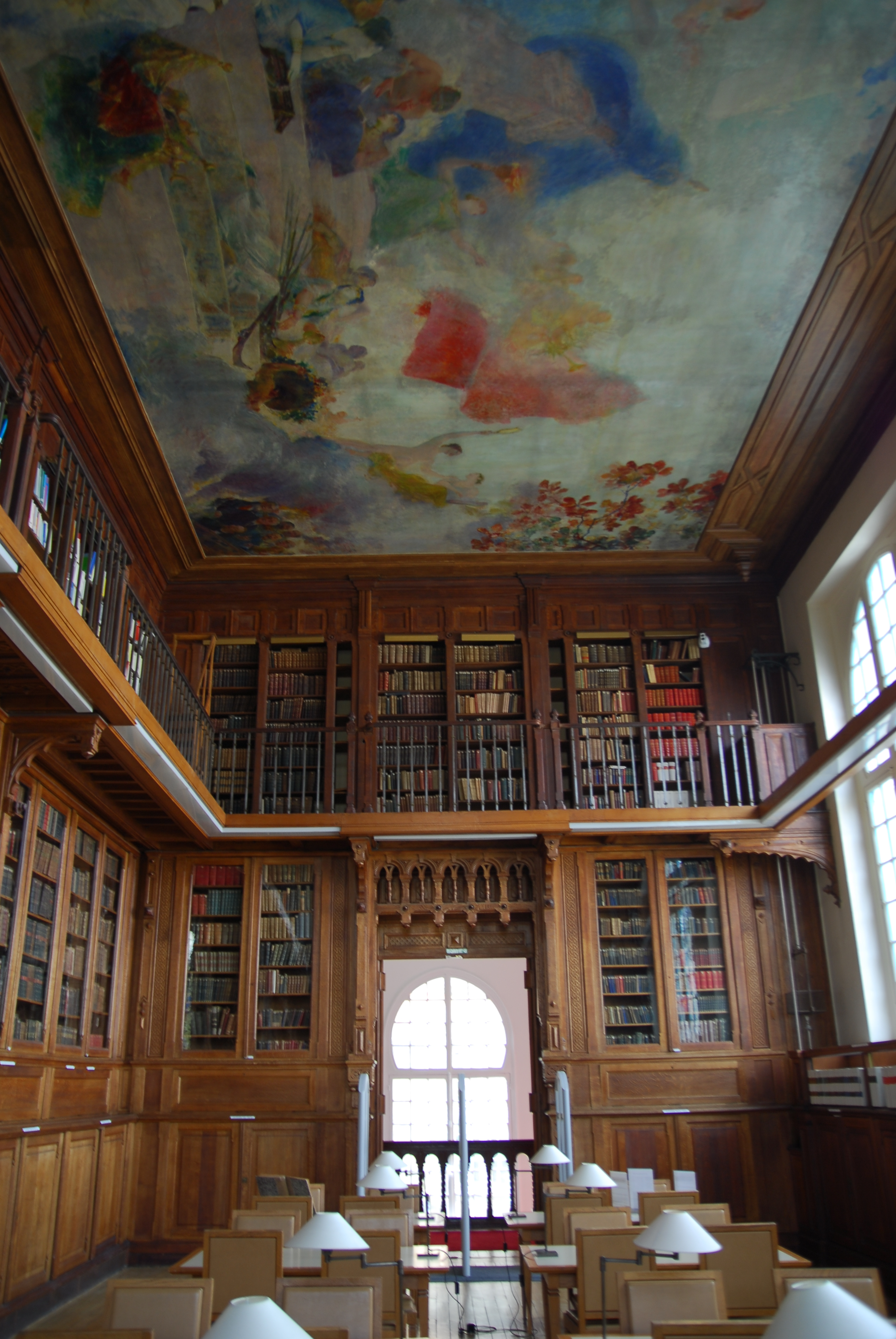 Library of the École nationale d'administration, in Paris, France.